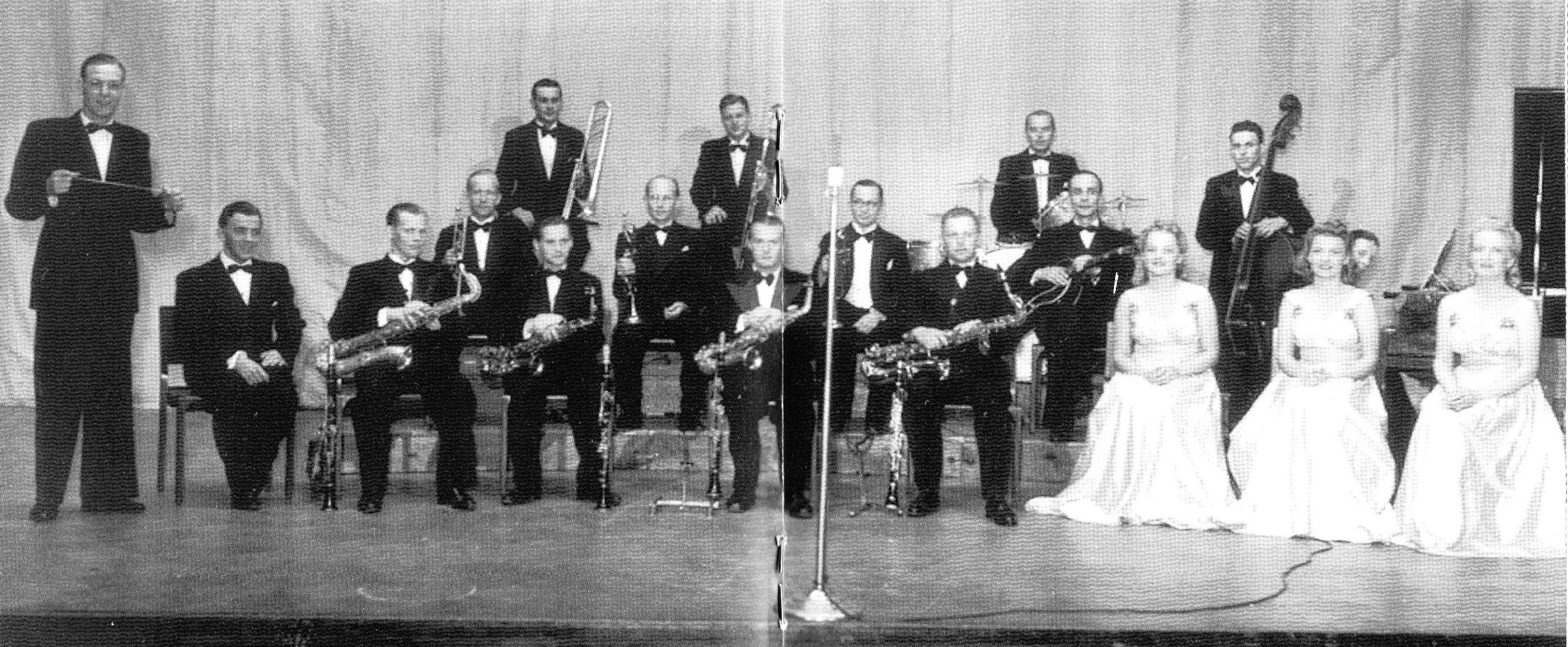 erkki aho's otchestra in year 1942